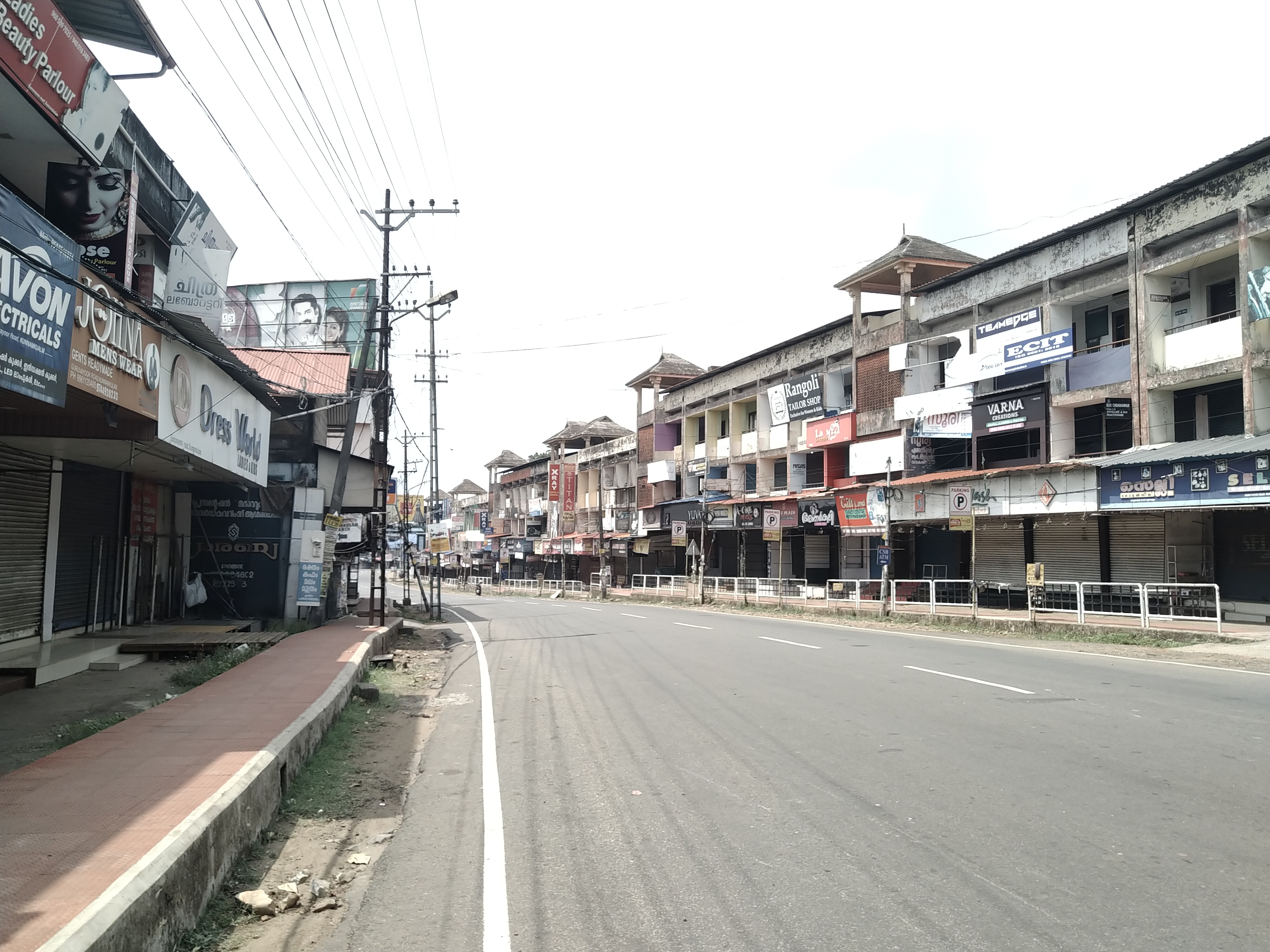 A busy street in Kunnamkulam empty because of COVID-19 enforced Sunday lockdown.